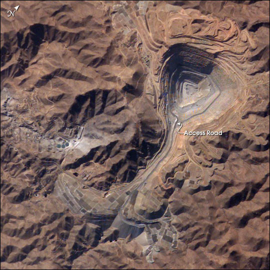 This image looks down the bull’s-eye of Peru’s Toquepala copper mine, a steep sided and stepped open-pit mine. Mid-afternoon sunlight on the arid slopes of the central Andes mountains provides an accent to the mine contours. At the surface the open pit is 2.5 kilometers across, and it descends more than 700 meters into the earth.